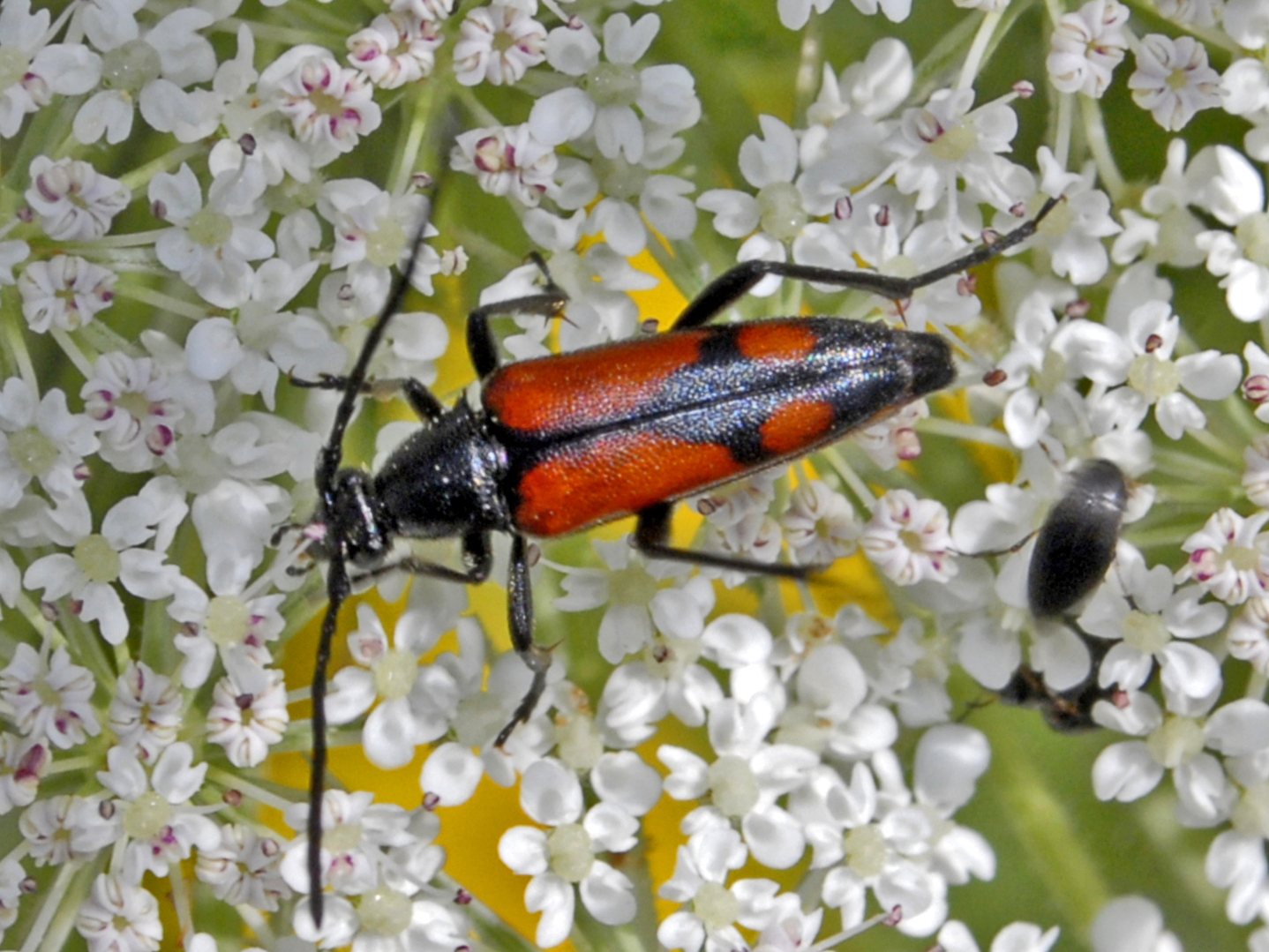 Stenurella bifasciata, female. Bousson, Torino, Italy